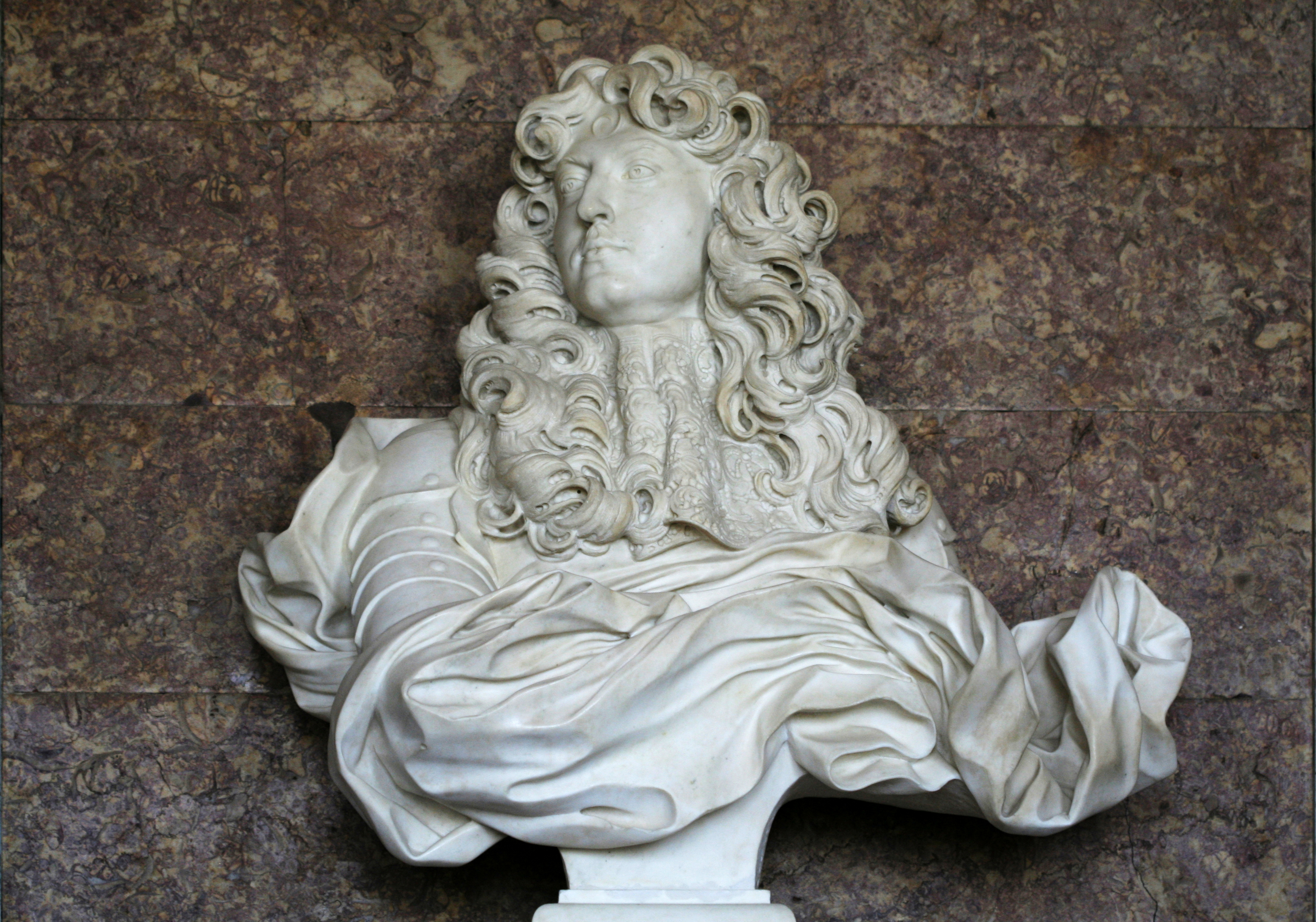 Bust of Louis XIV of France